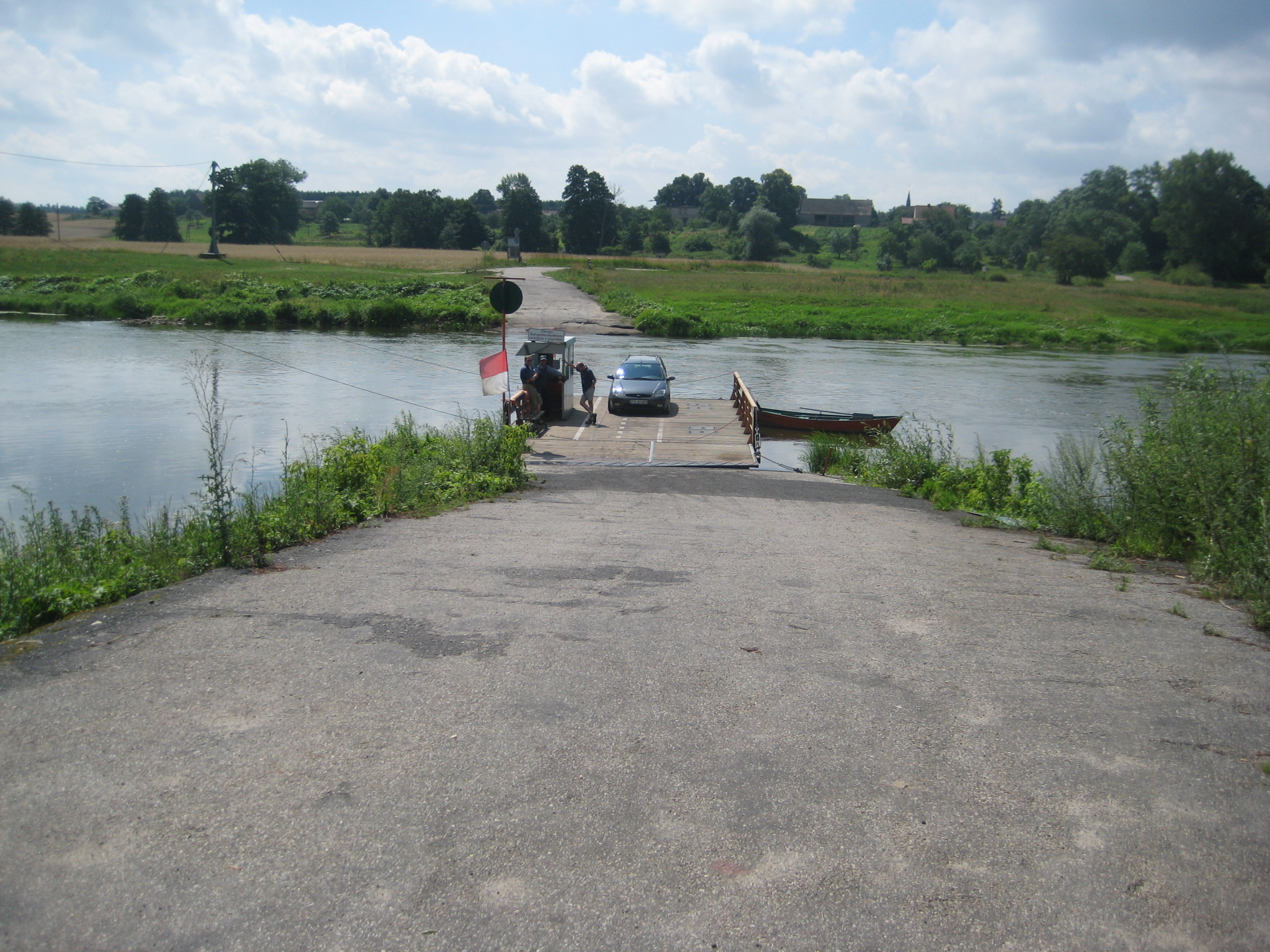 Zatom Nowy - village in Poland